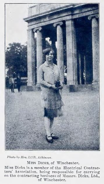 Image of Miss Jeanie Dicks published in 'The Woman Engineer' Journal of the Women's Engineering Society in 1929